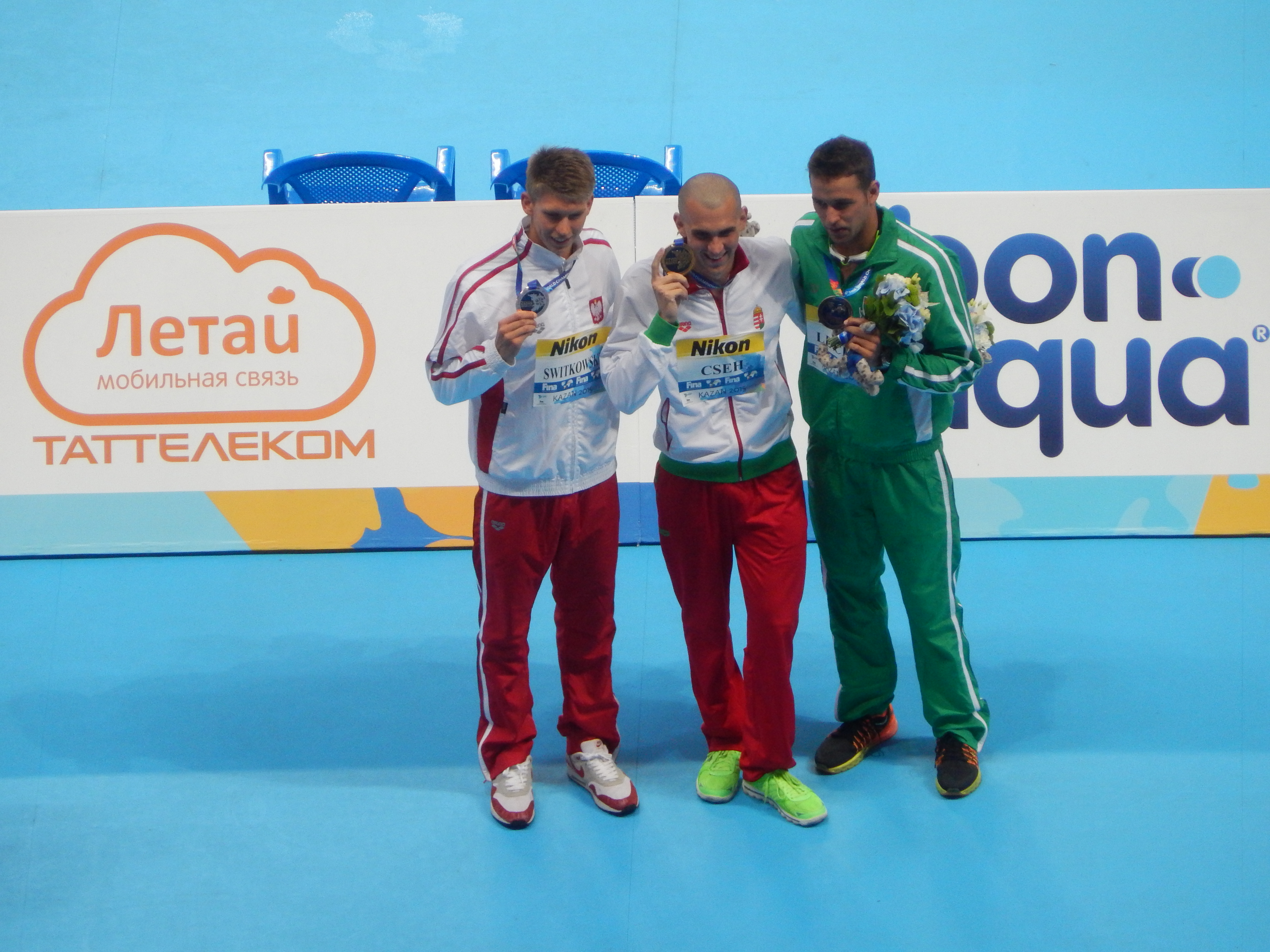 Medallists at the men's 200 metres butterfly in Kazan 2015